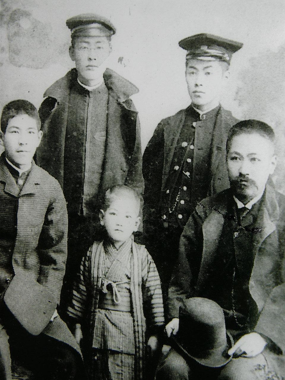 Matsuoka brothers